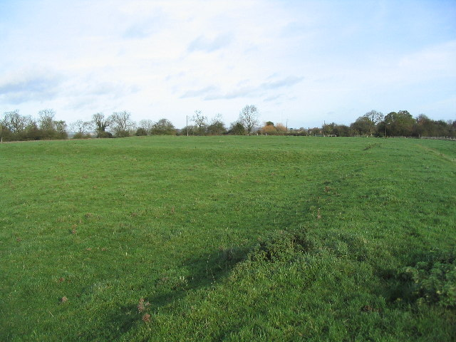 St Mary and St Lazarus Hospital (site of), Burton Lazars. Slightly bumpy ground is all that remains of this leper hospital founded by Roger de Mowbray (cf Melton Mowbray) in the 12th century for the Order of St Lazarus of Jerusalem (cf the village of Burton Lazars).